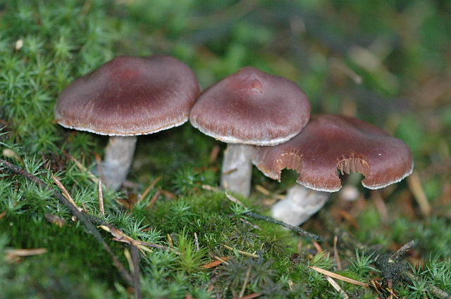 Cortinarius evernius from Commanster, Belgium. If you think this is a different taxon, please contact James Lindsey.